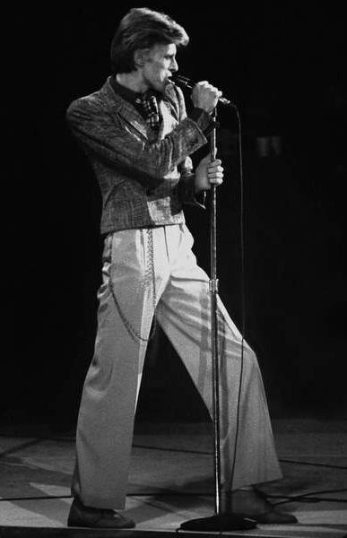 The Young Americans tour at the Washington DC Capital Centre on 11 November 1974.